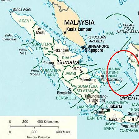 Map of Sumatra with the Karimata Strait indicated.